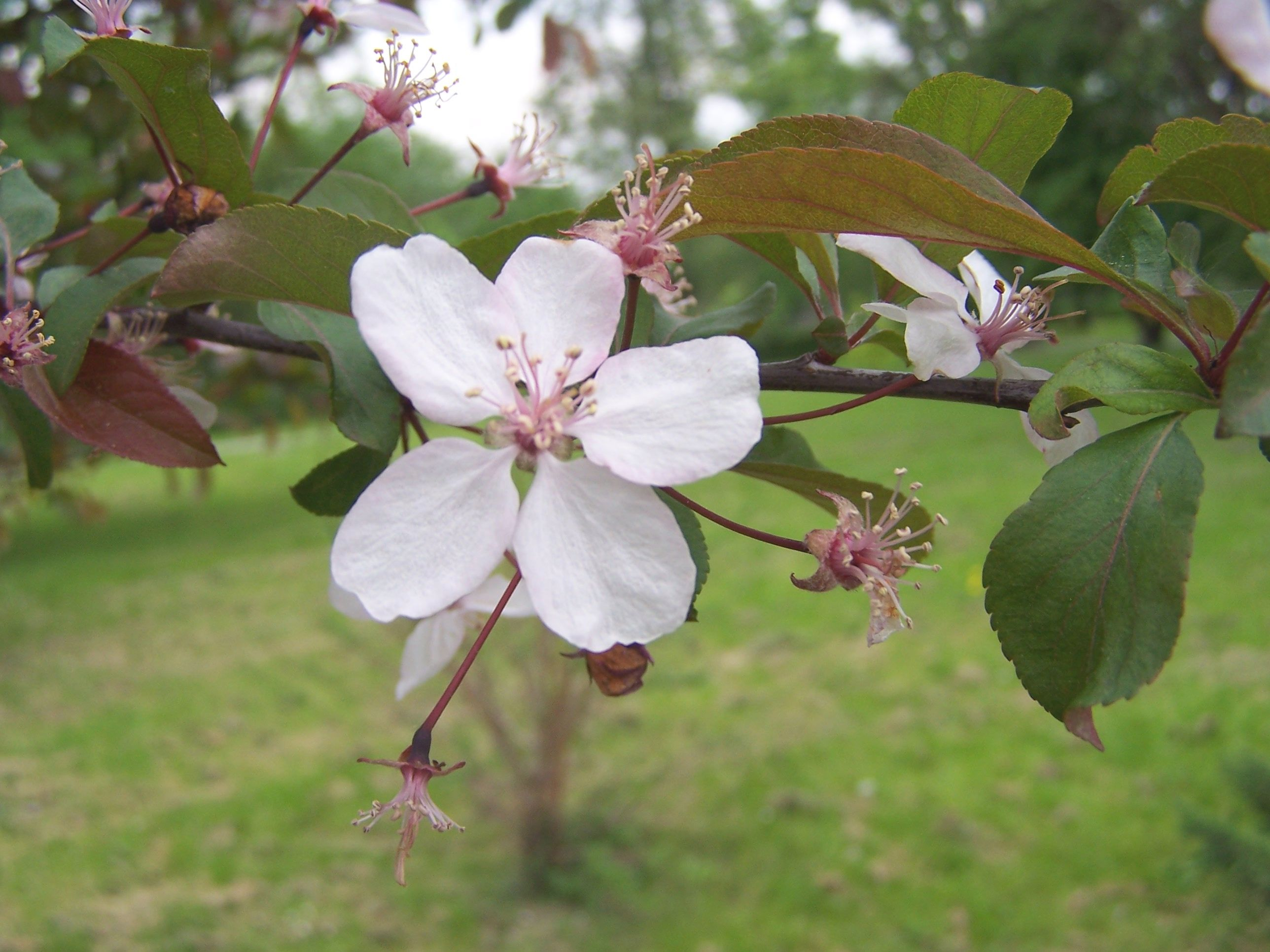 A Malus cultivar, probably M. × purpurea, in flower